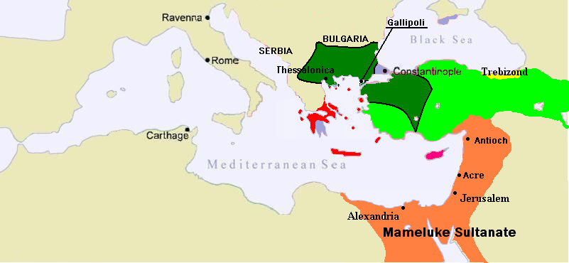 Map of the Middle East c.1389. Serbia has been reduced to vassal status and Byzantium (purple) consists only of Constantinople and a few outer posts. Following the occupation of Gallipoli, the Ottomans (Dark Green) rapidly spread across the Balkans giving them a major advantage over their Turkic (Green) rivals in Anatolia.